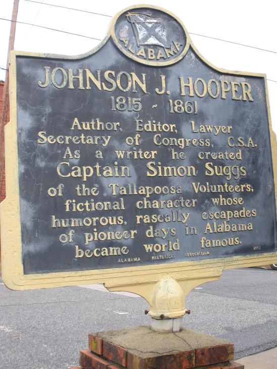 This is a picture of a historical marker in Dadeville, Alabama noting the significance of author Johnson J. Hooper and his character Simon Sugg, a native of Dadeville.